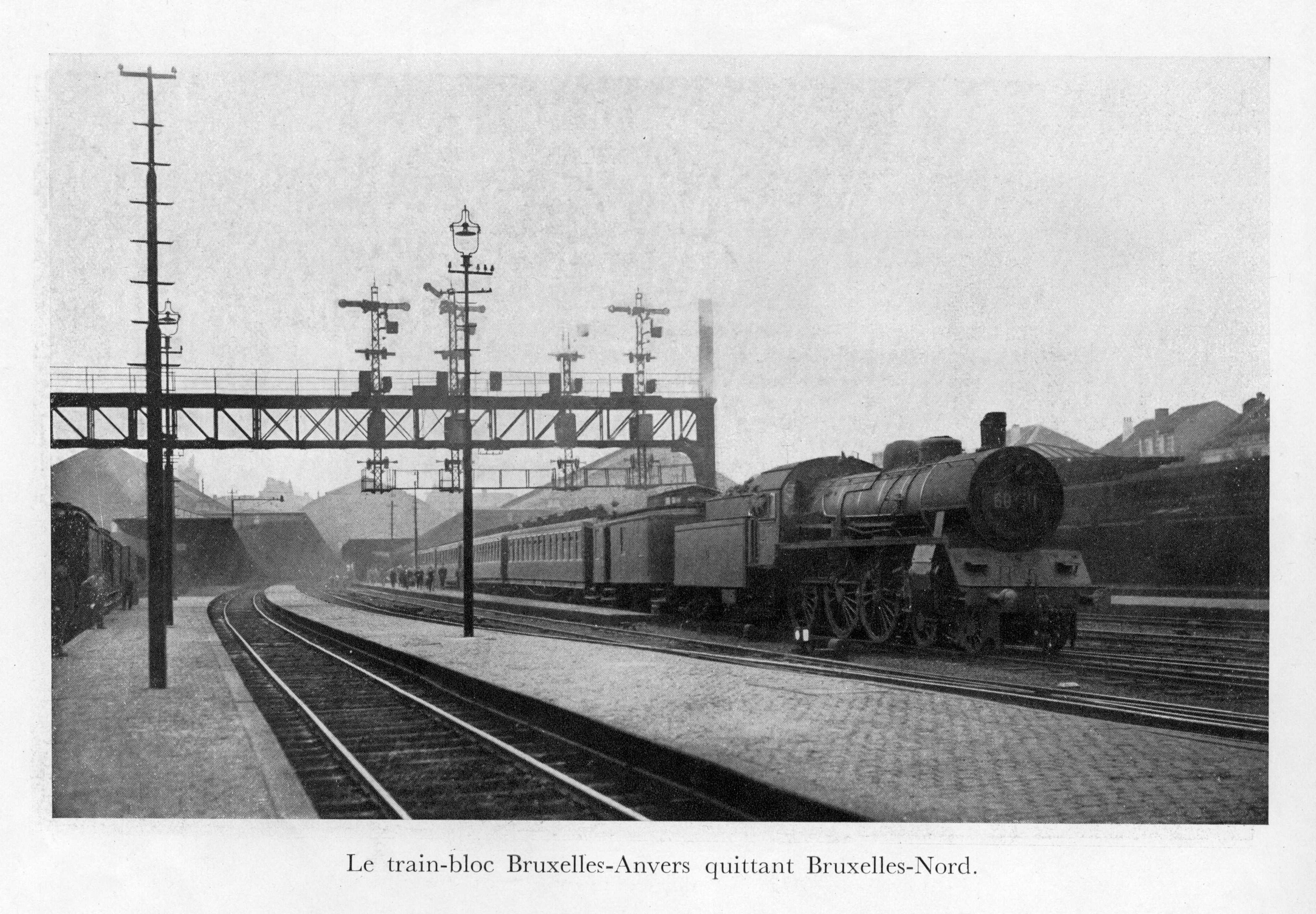 Bloktrain leaving Brussels North in the 1920's